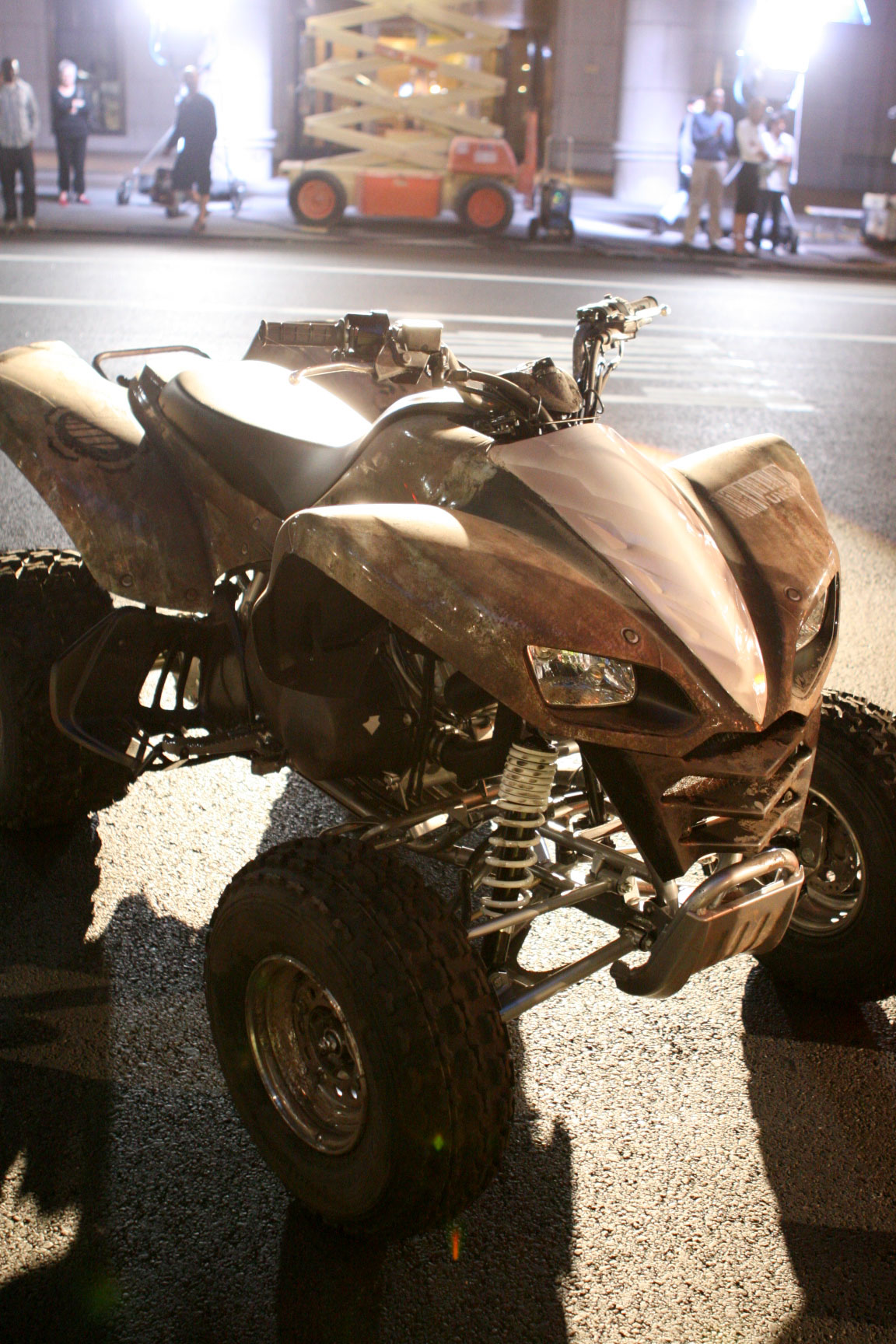 A mongoose ATV replica from the video game Halo 3 at the New York midnight launch event.